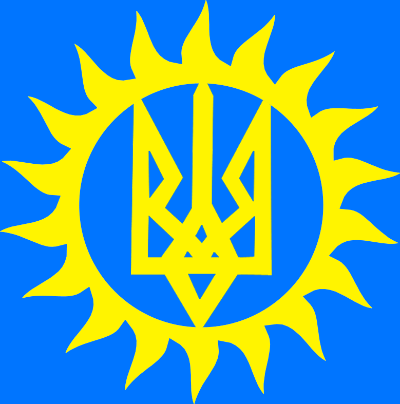 Runvira (Ukrainian trident symbol inside rayed sun)